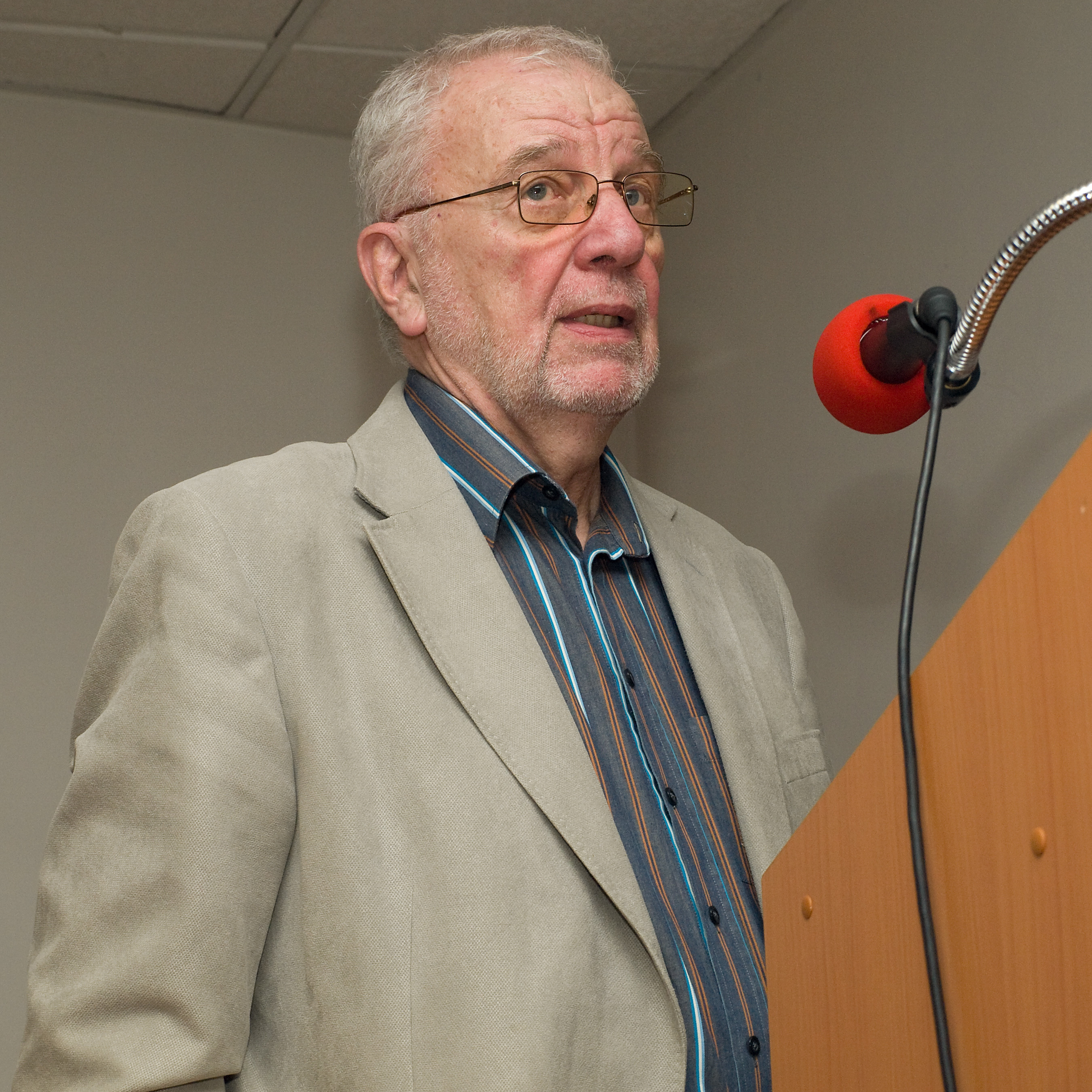 Czech neuropathologist František Koukolík